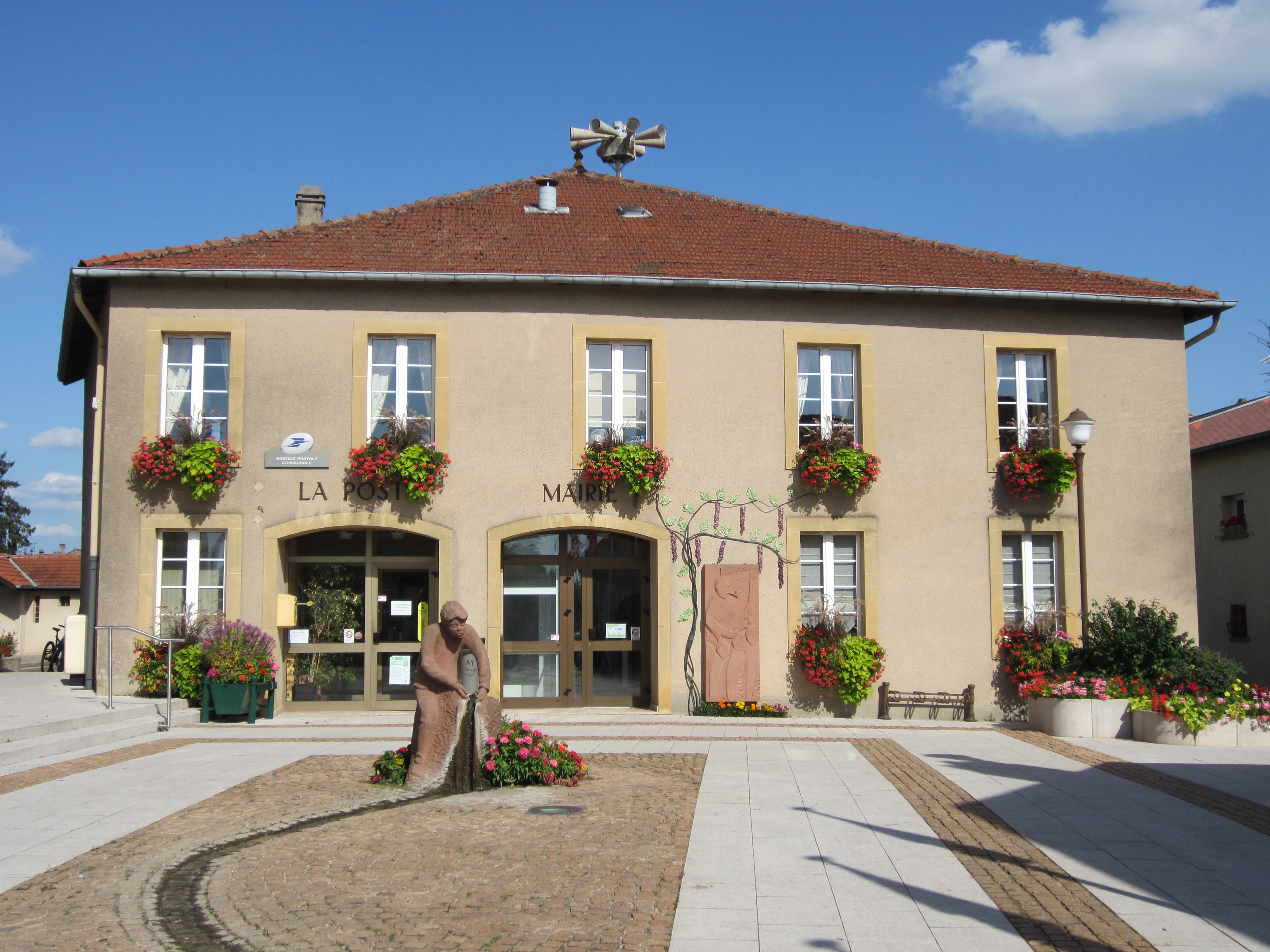 Description mairie Ay Moselle Date3 September 2011Sourcemon appareil photoAuthorAimelaimePermission(Reusing this file) mairie Ay Moselle